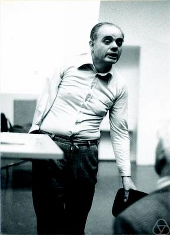 Arthur Engel, Aachen 1978